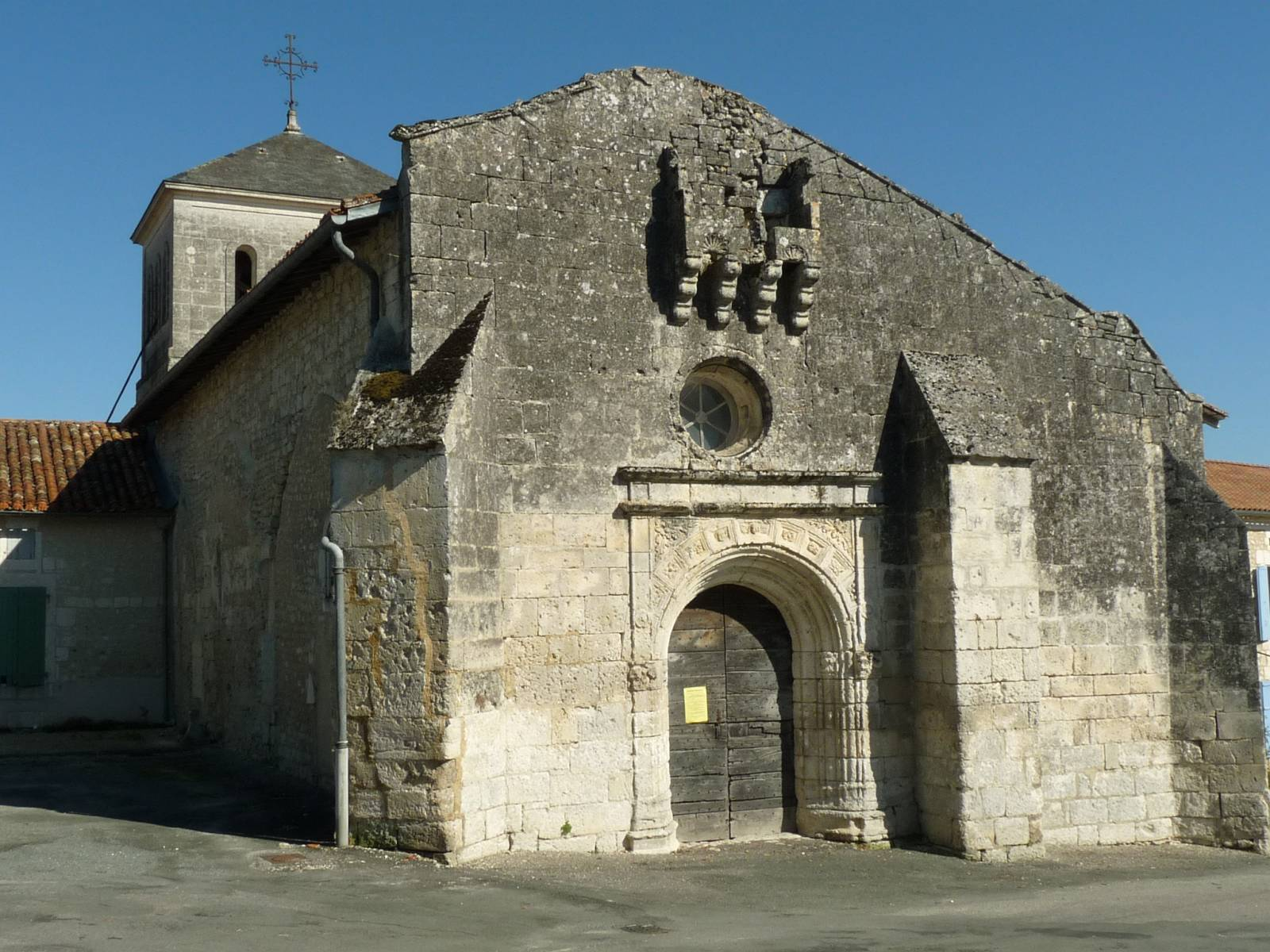 church of Nanteuil-de-Bourzac, Dordogne, SW France